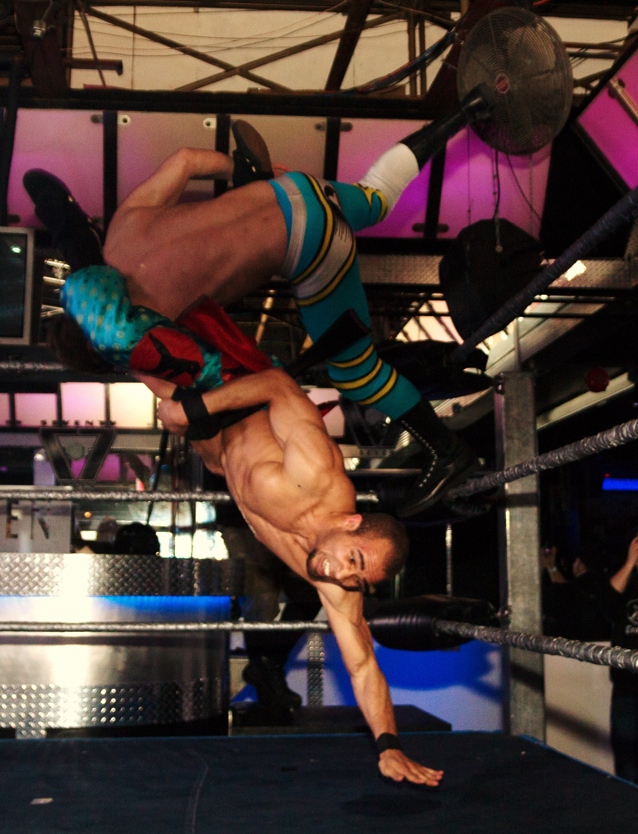 Wrestler Louis Lyndon (with hand towards mat) doing a top-rope frankensteiner on Ty Colton